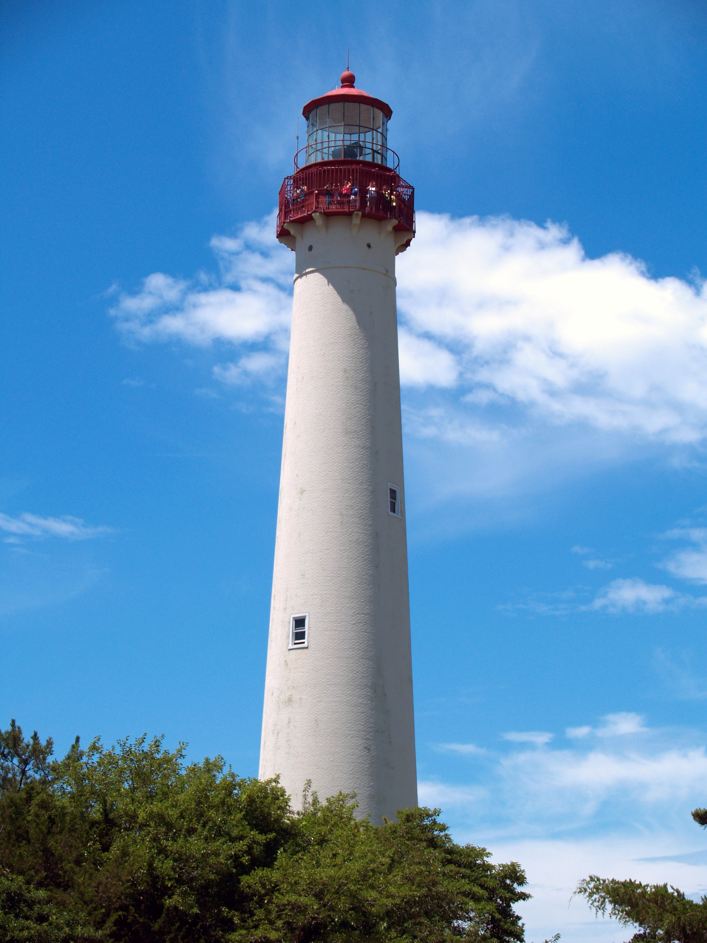 The Cape May Lighthouse in Cape May, New Jersey, the southernmost tip of that state, as seen on July 23, 2015. This photo was created by Luigi Novi. It is not in the public domain, and use of this file outside of the licensing terms is a copyright violation.